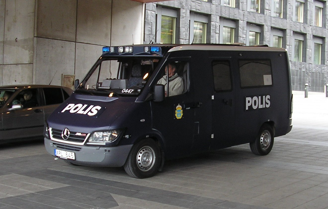 Swedish police car, a Mercedes-Benz 316CDI